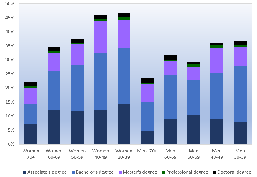 data